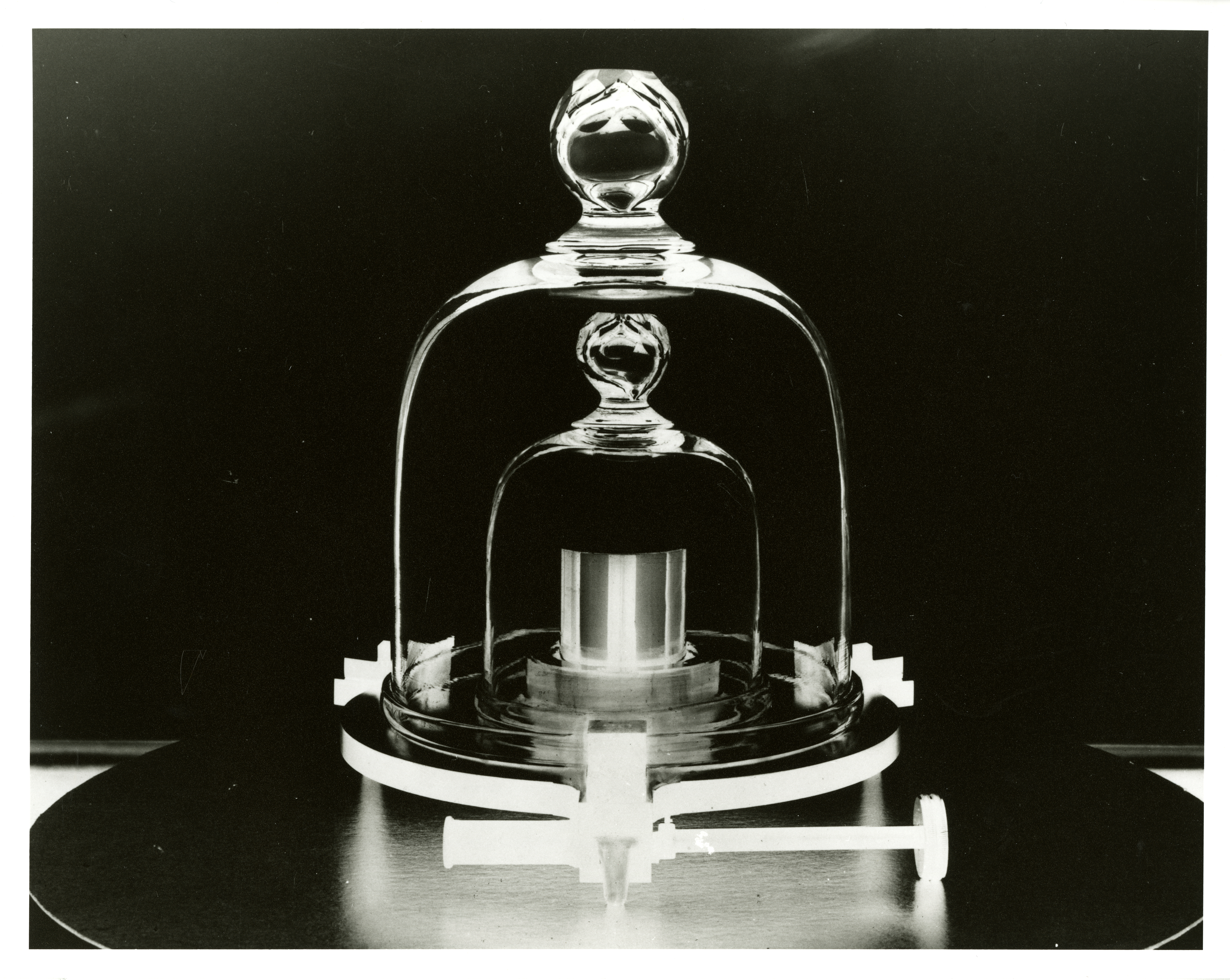 Bell jar display of prototype kilogram replica